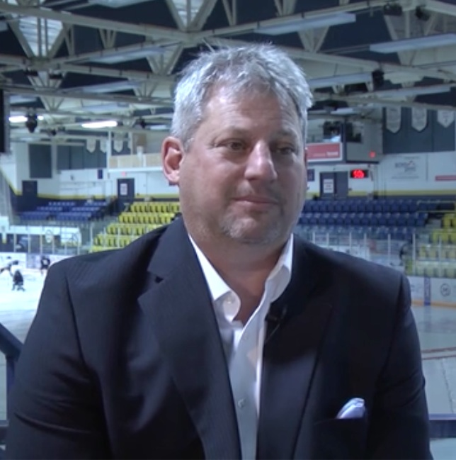 Curtis Hunt Update photo as GM of Fort McMurray Oil Barons